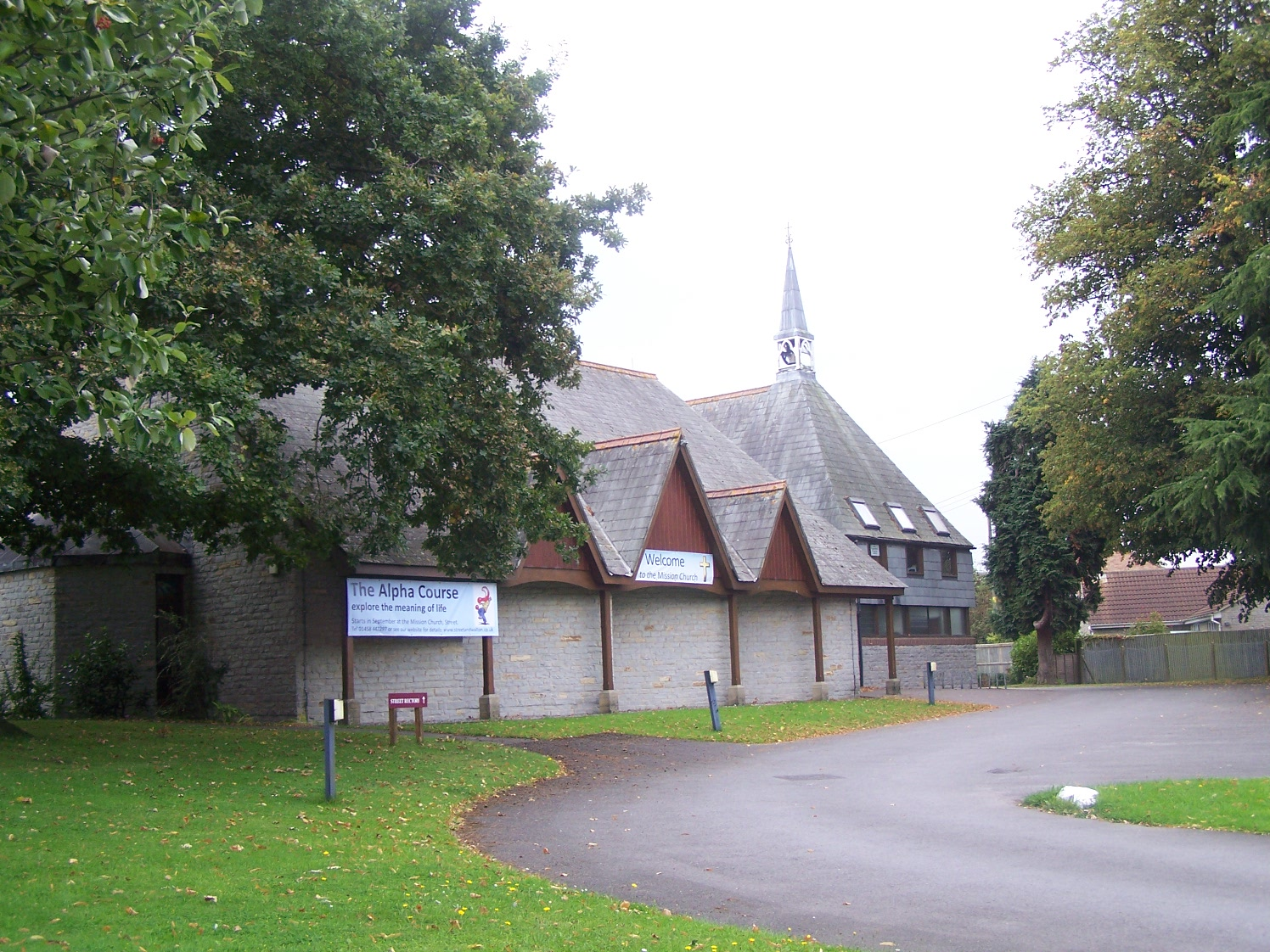 The Mission Church, Street